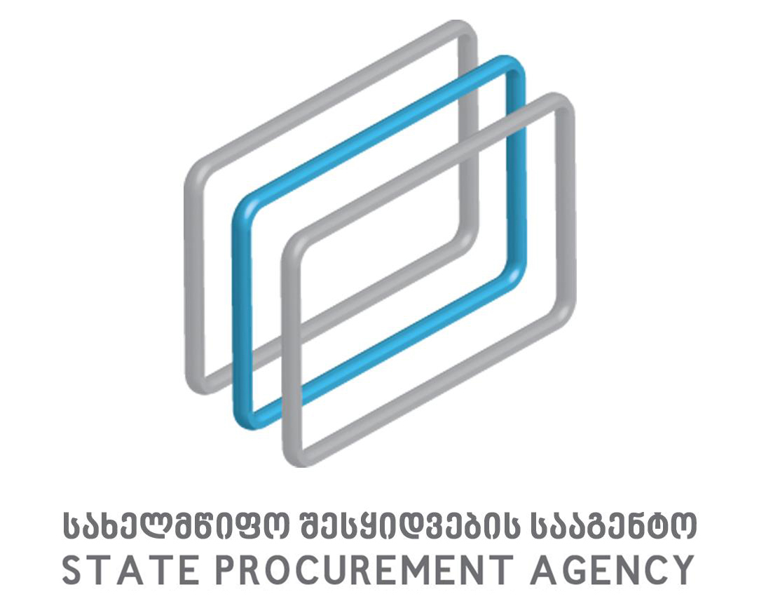 The logo of Legal Entity of Public Law — State Procurement Agency of Georgia (Country).